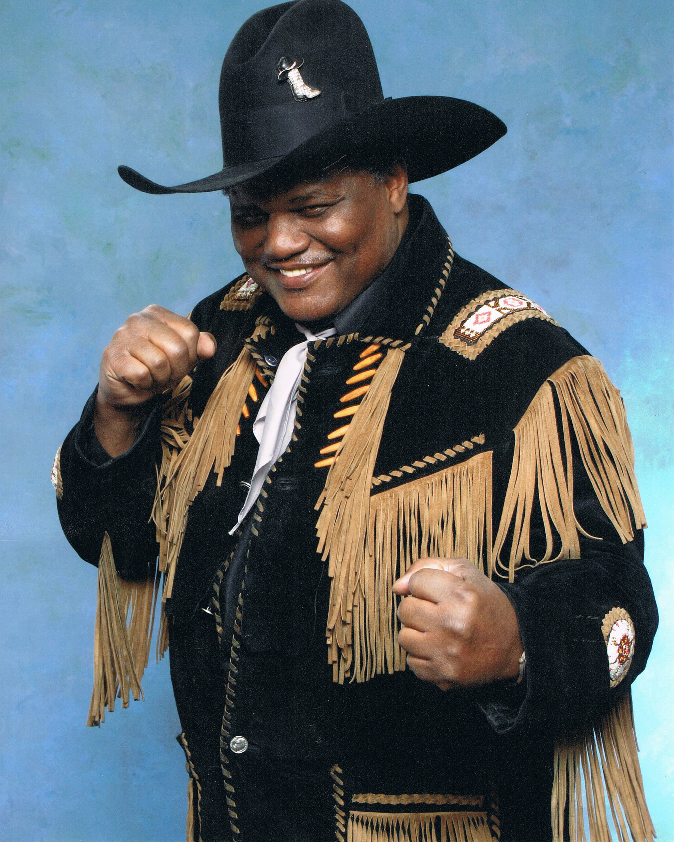 To be displayed on James Tillis Wiki Page, [James "Quick" Tillis- The Fighting Cowboy] - Photograph - submitted by James Tillis as replacement for previously disputed photo. This photo is submitted and I am aware it is for free use and I release it as such. Any questions- 918-938-2360 and I have provided my website for verification.